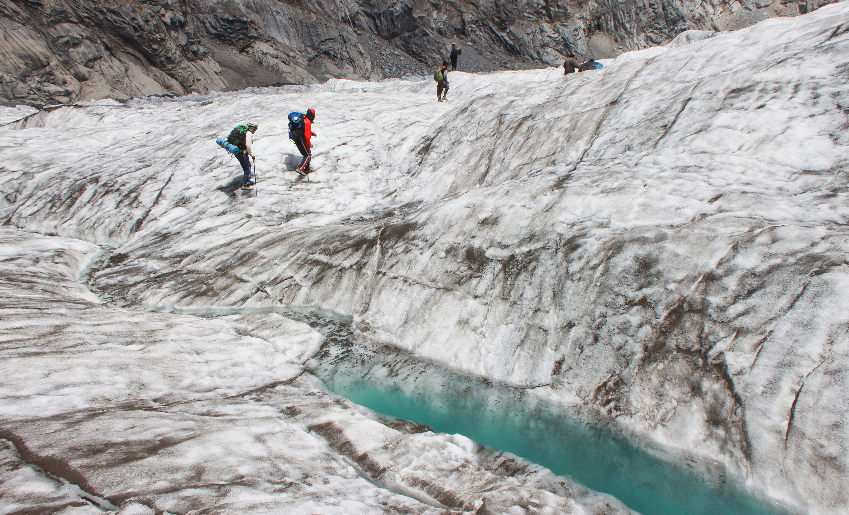 Crossing the mighty ChitiBoui Glacier in the vast and beautiful Broghil Valley